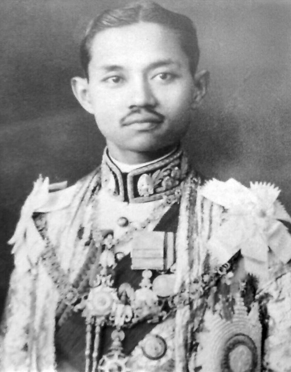 Portrait photograph of King Prajadhipok of Siam, now Thailand